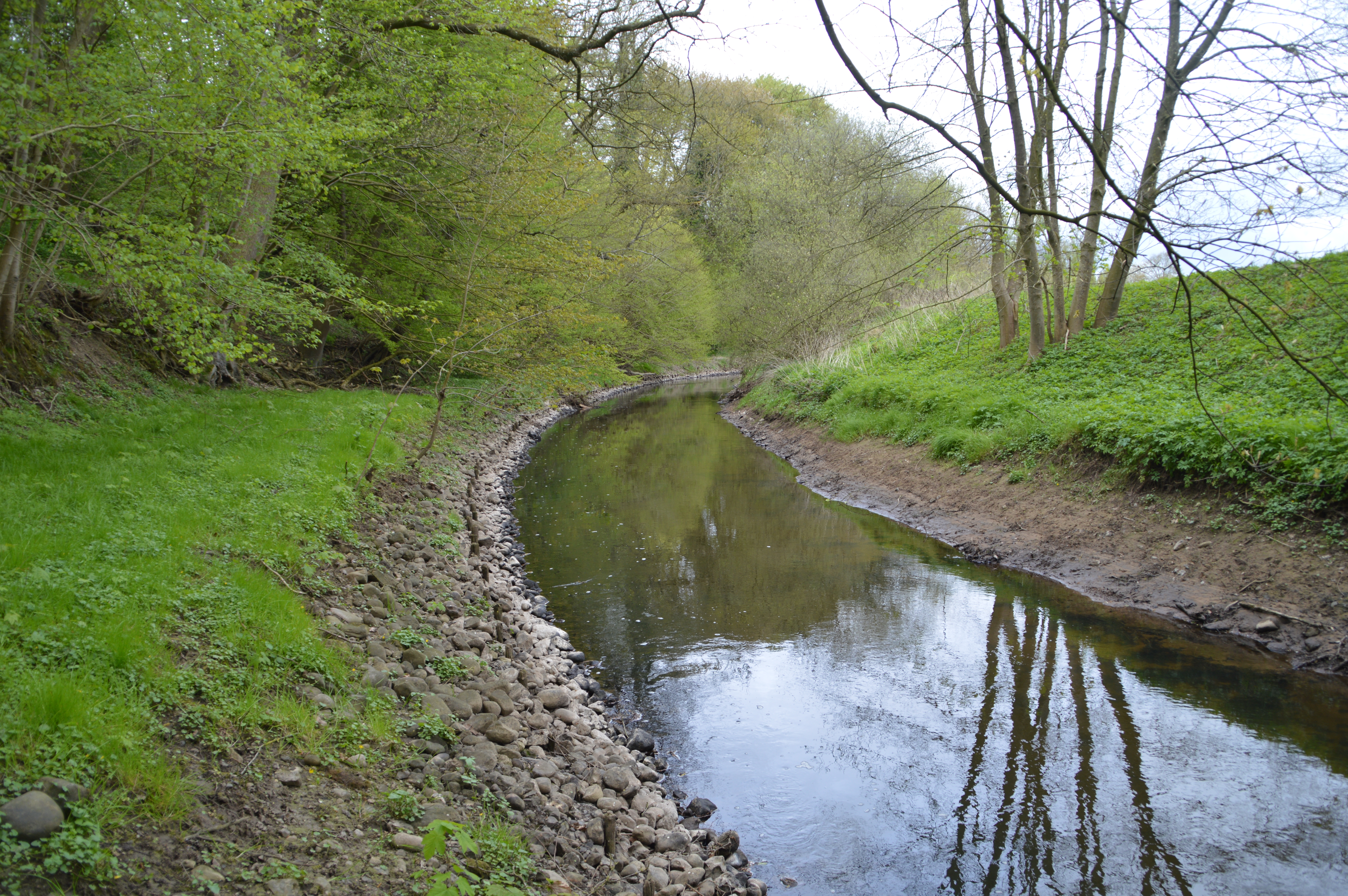 Loiter Au near Loit